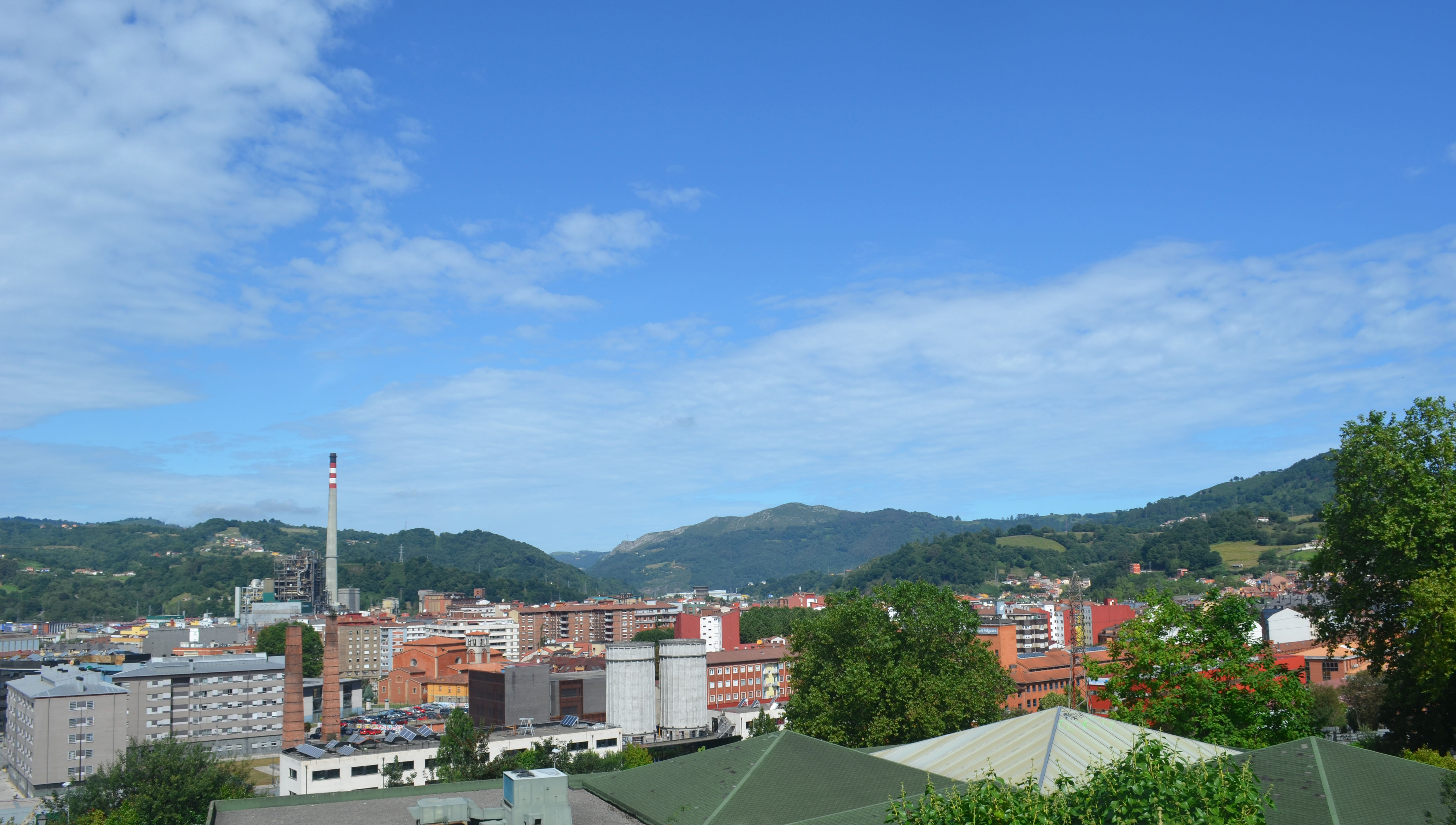 Parcial view of the town of La Felguera, in Asturias, north Spain